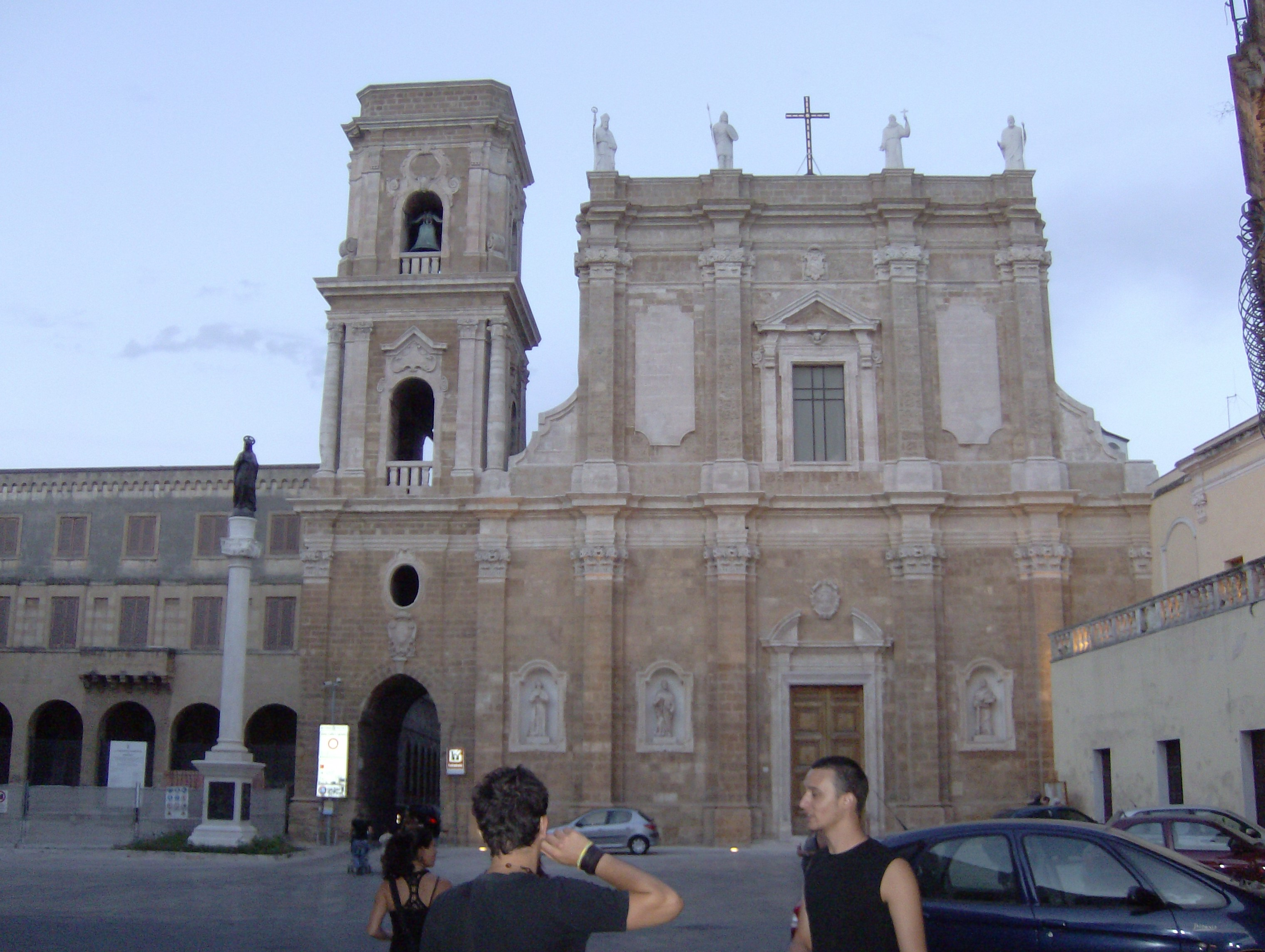 Fassade of Brindisi cathedral.